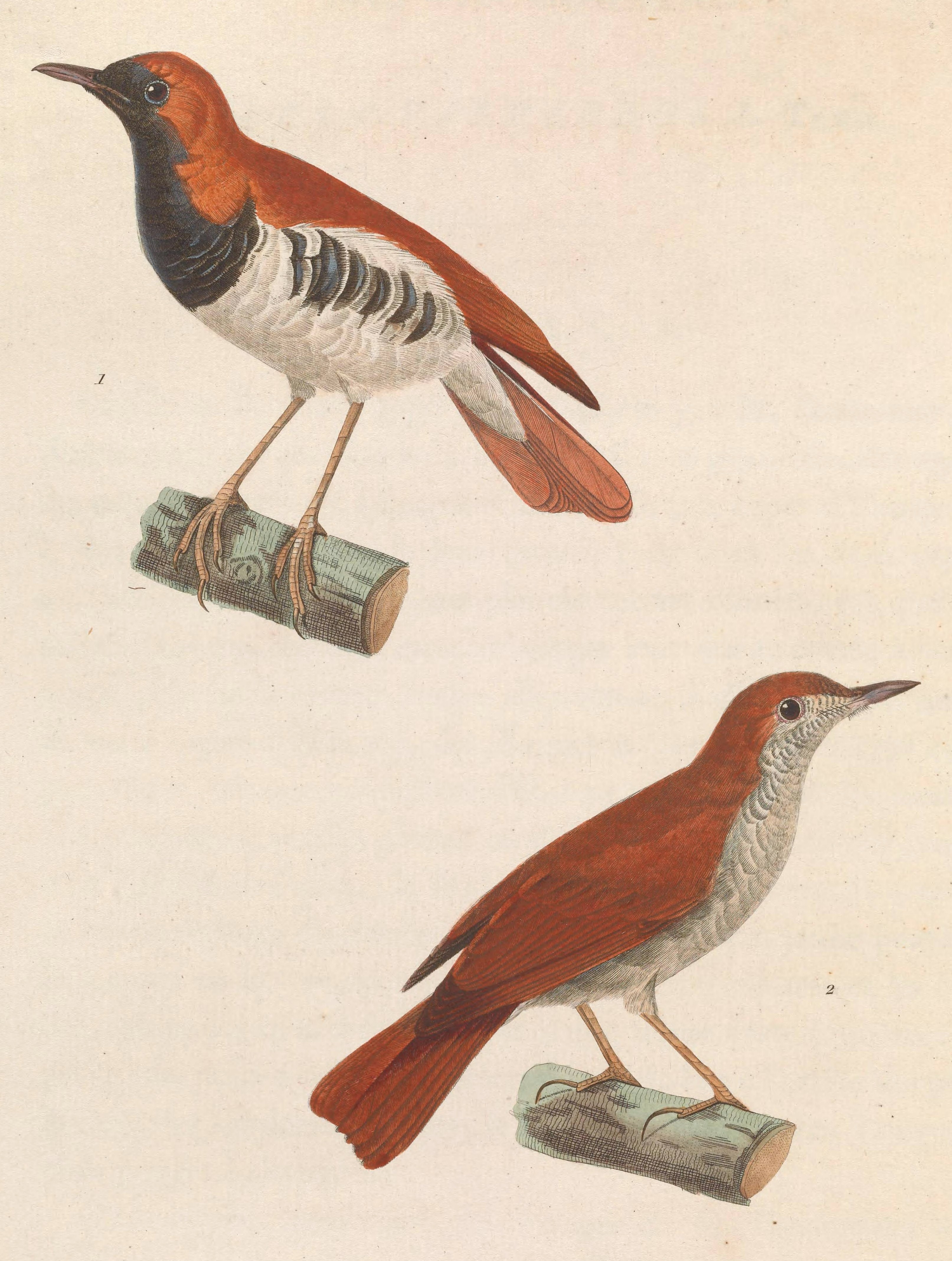 « Sylvia komadori » = Erithacus komadori (Ryukyu Robin) - male and female